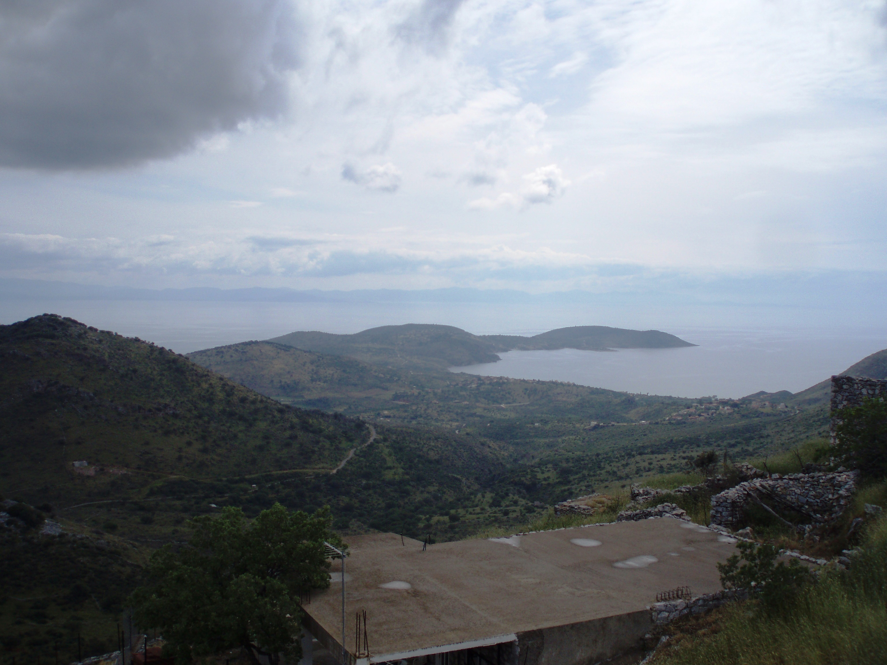 View from Drosopigi village in Laconia prefecture, Greece